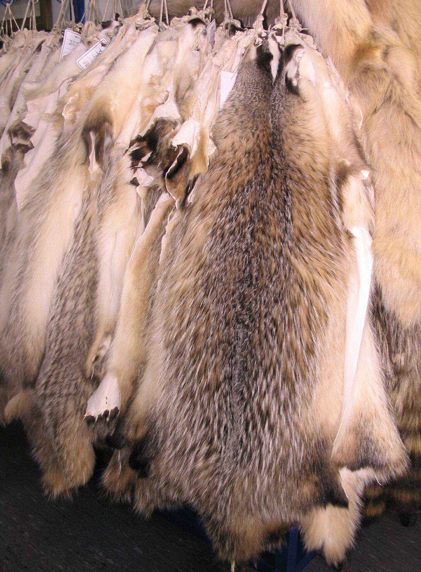 Badger skins; North America. Dachsfelle